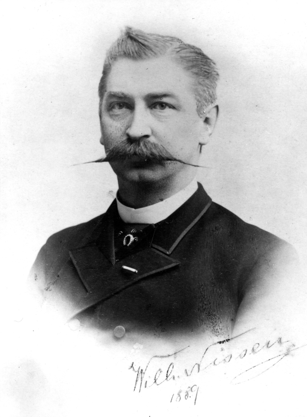 Nicolaus Wilhelm Lorentz Nissen (1850-1897), Danish merchant